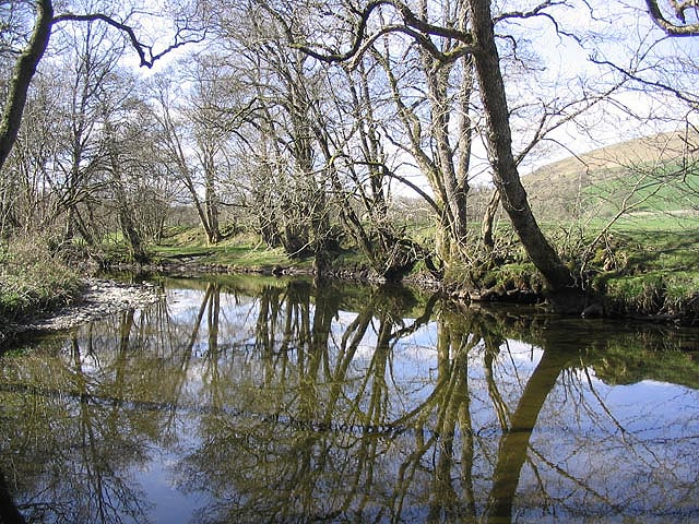 Reflections on the Shinnel Water The Shinnel Water south-southeast of Killiewarren.